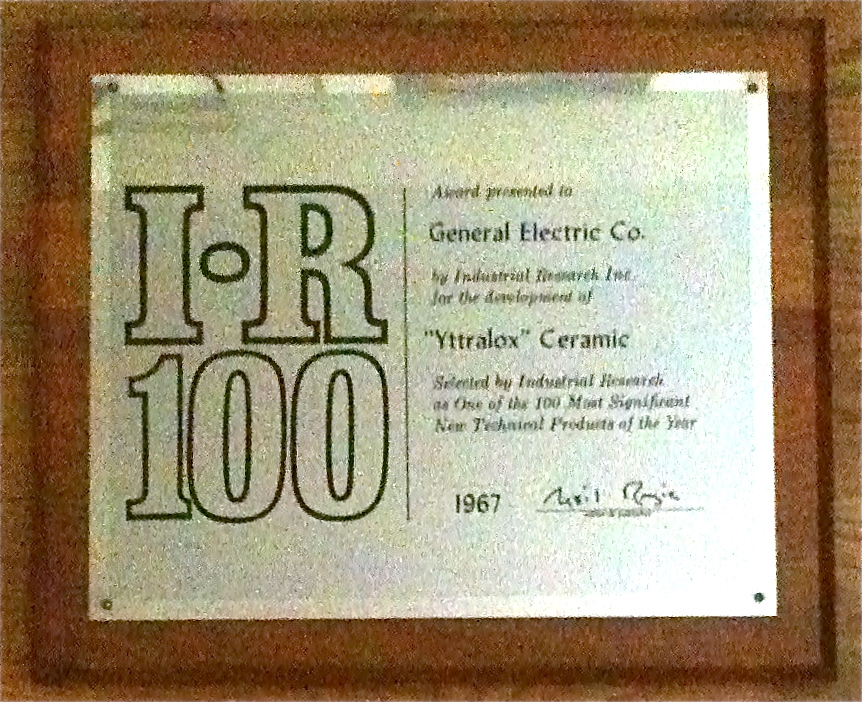 Award for Yttralox transparent ceramic. Caption reads: "I-R 100 Award presented to the General Electric Co. by Industrial Research Inc. for the development of "Yttralox" ceramic, selected by Industrial Research as one of the 100 most significant technical products of the year, 1967"